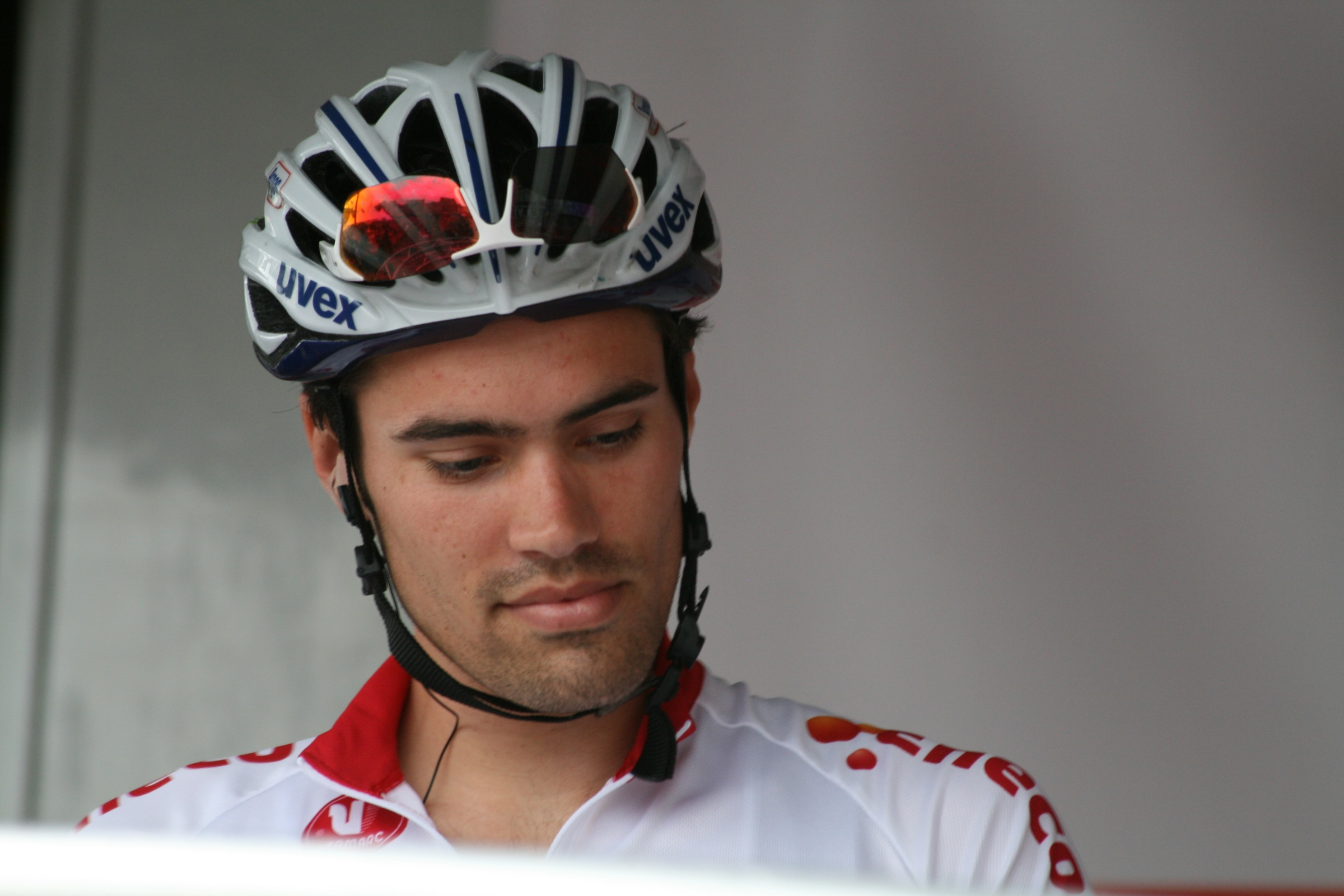 Tom Dumoulin in the leader's jersey at the start of the final stage of the Eneco Tour 2013